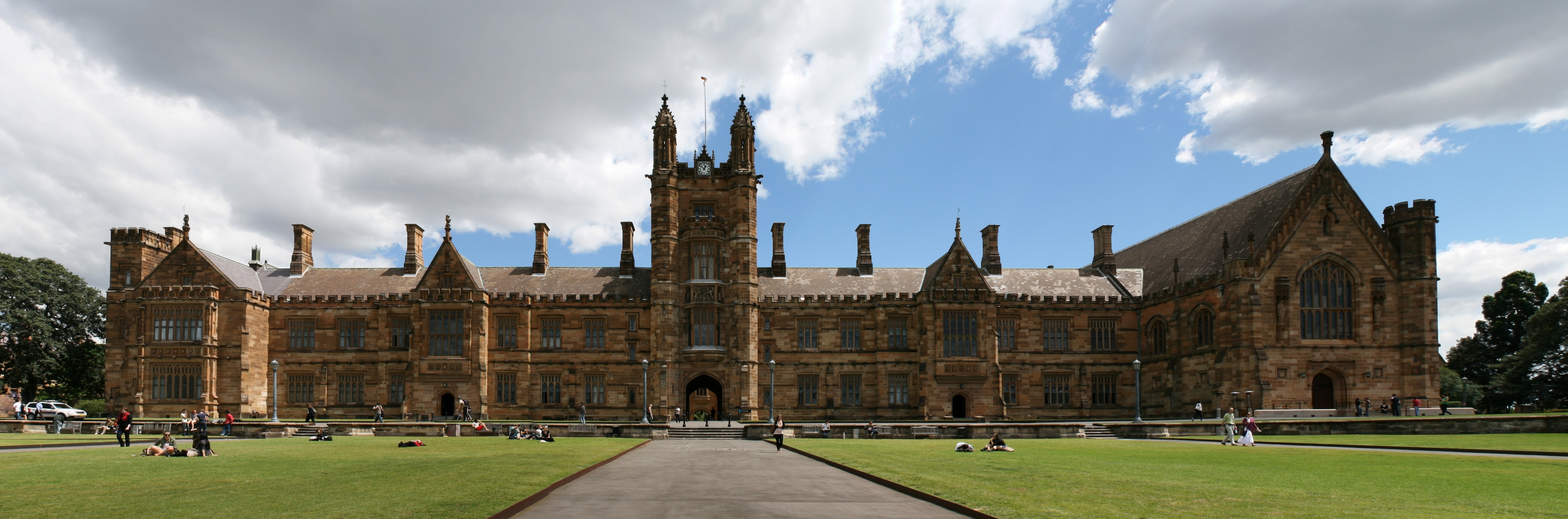 Main Building and Great Hall of The University of Sydney taken from the front lawns. Through the archway is the Main Quadrangle. The architect was Edmund Blacket.